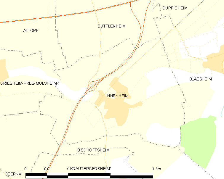 Map of French municipality